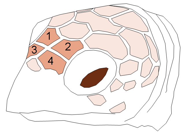 The 4 head interocular scutes of Eretmochelys imbricata'